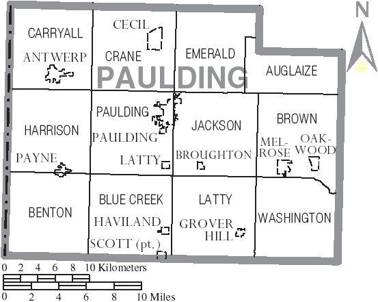 Map of Paulding County, Ohio, United States with township and municipal boundaries